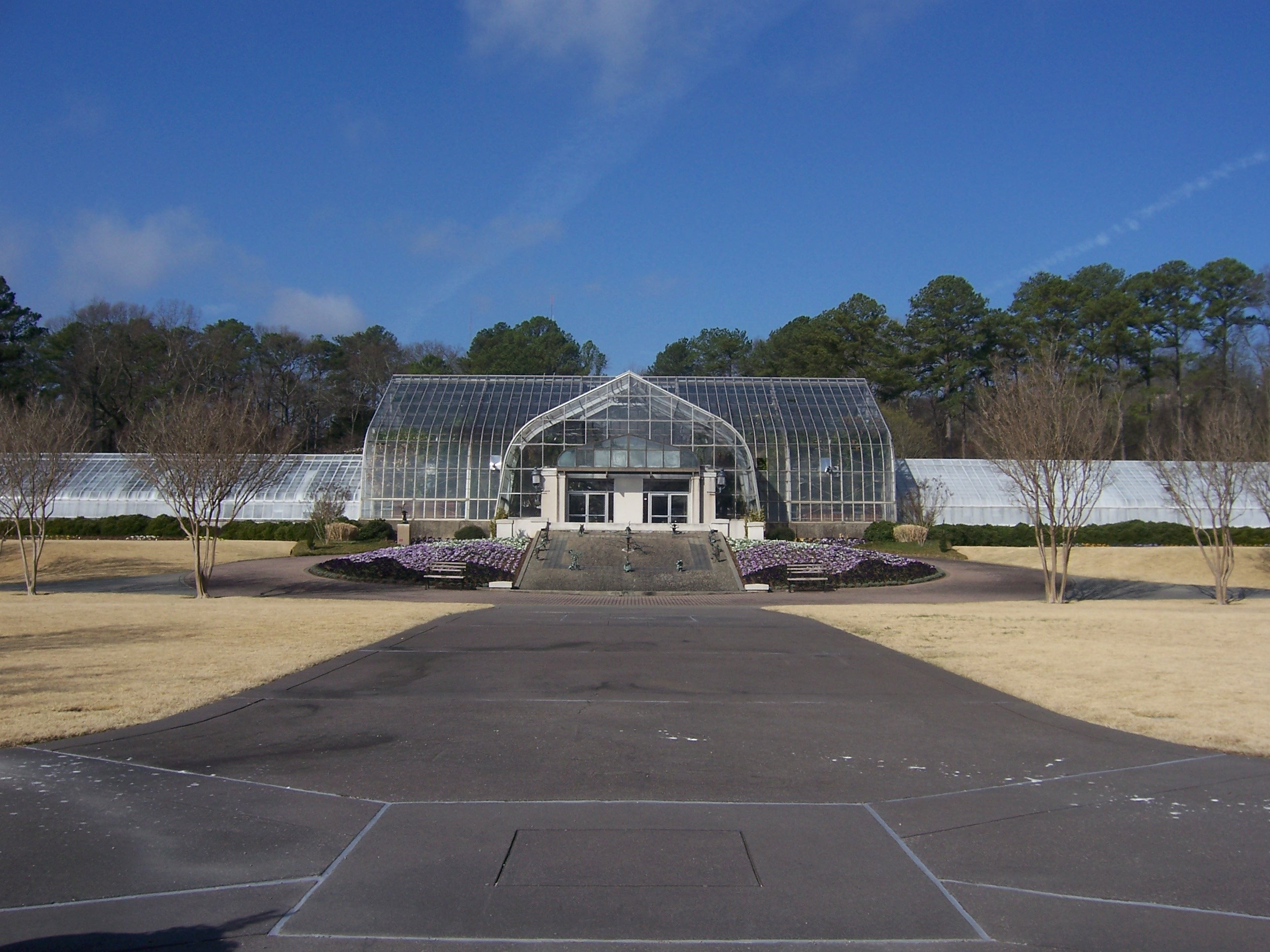 The Conservatory at the Birmingham Botanical Gardens in Birmingham, Alabama USA.